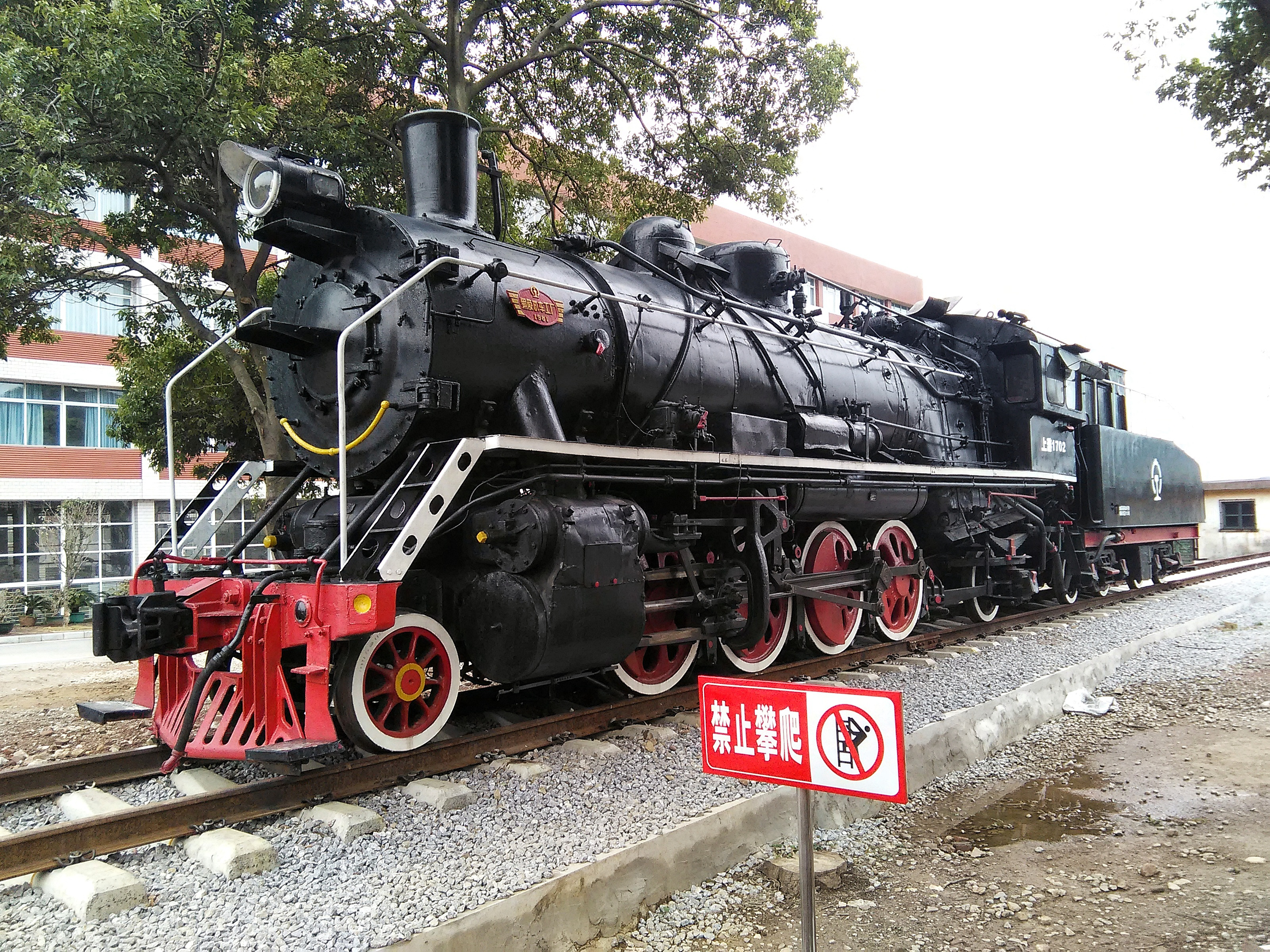 SY 1702 is stored at Guilin University of Aerospace Technology.